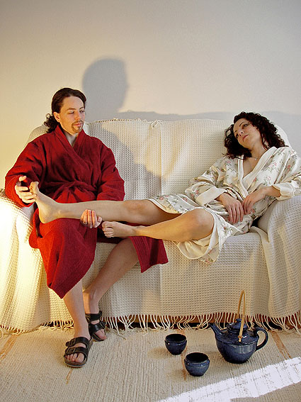 Fotografie Barbory Bálkové; Barbora Bálková´s photographs Personality rights warningAlthough this work is freely licensed or in the public domain, the person(s) shown may have rights that legally restrict certain re-uses unless those depicted consent to such uses. In these cases, a model release or other evidence of consent could protect you from infringement claims.